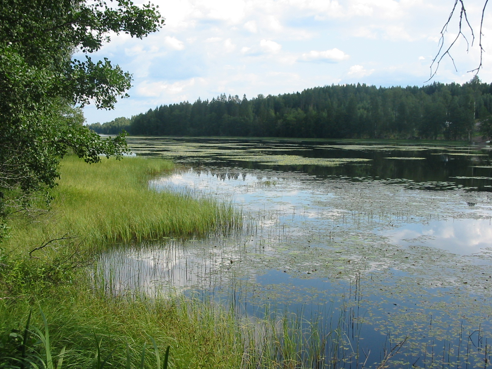 Lake Arimaa, Somerniemi, Somero, Finland